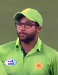 Imam-ul-Haq fielding during the cricket match, Pakistan vs Sri Lanka, October 2017